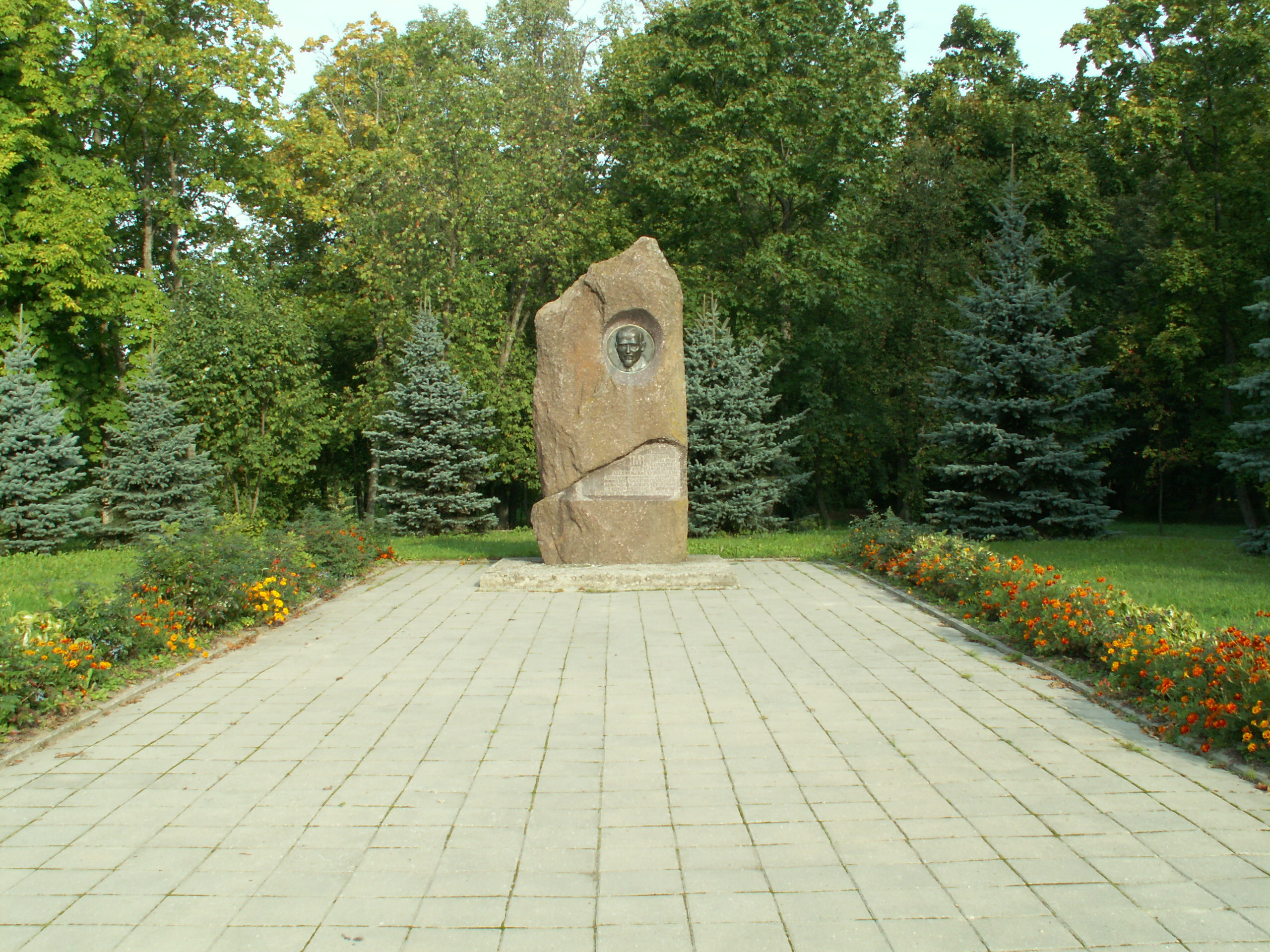 Jokūbavas, Kretinga district, Lithuania